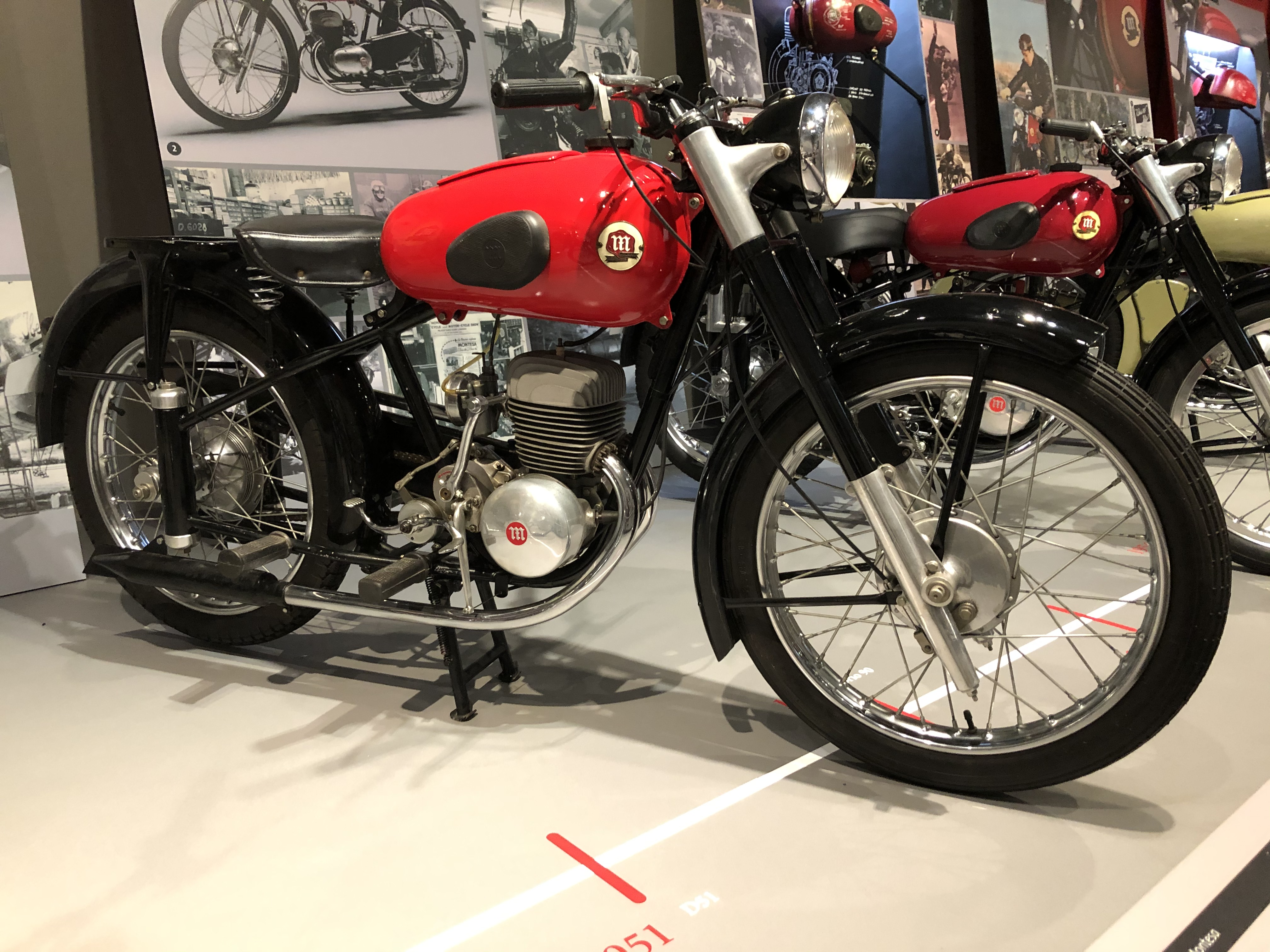 Montesa Brio 80 (1955), Mod. MB, 124.9 cc